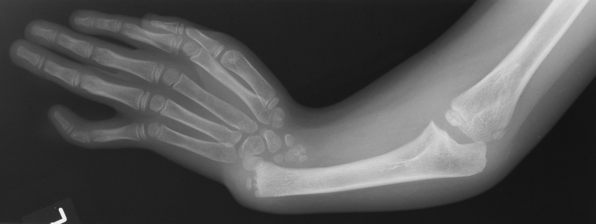 AP radiograph of the upper limb showing absent radius with radially deviated hand